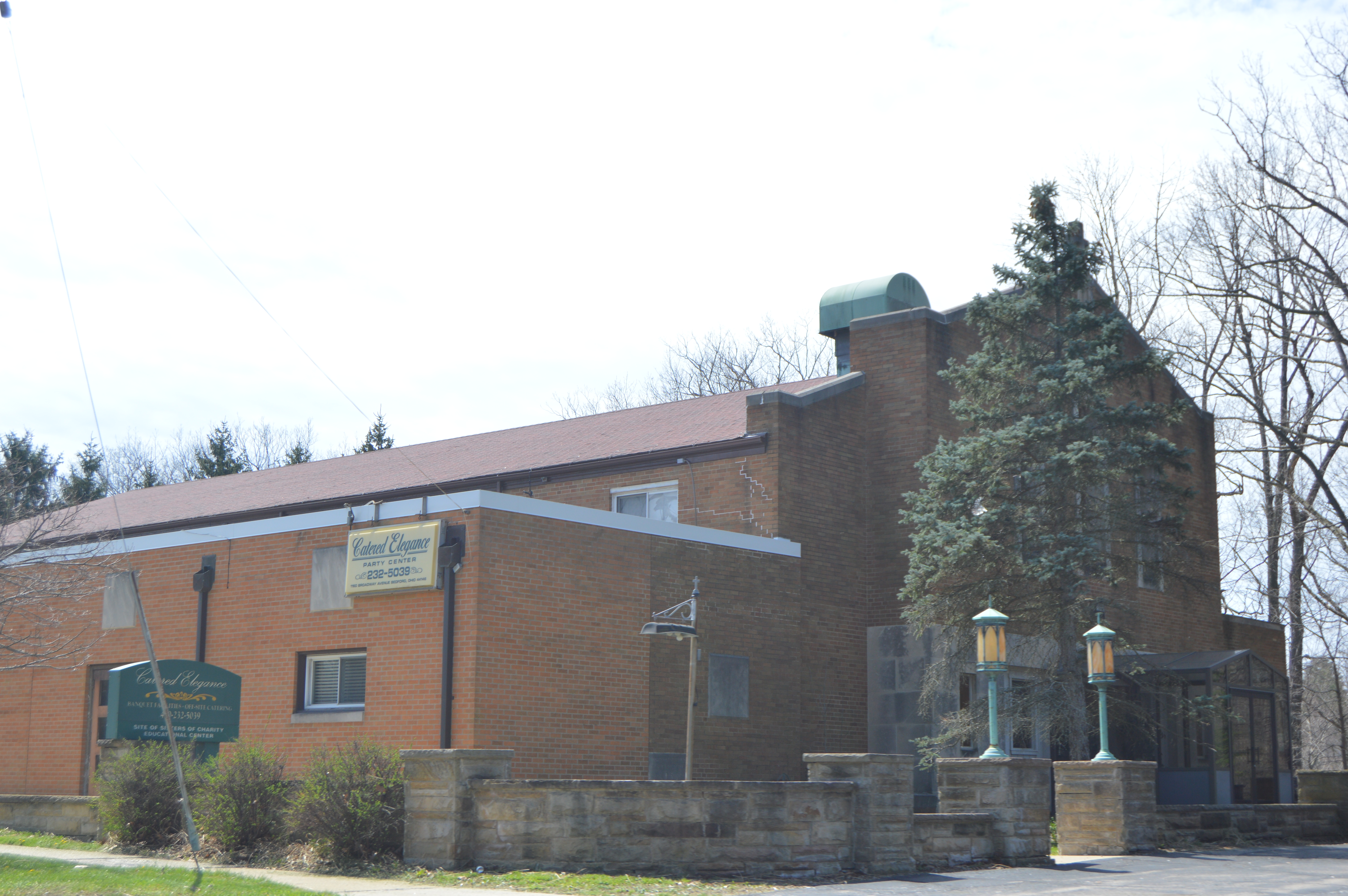 One of the buildings at Villa San Bernardo, located at 1160 Broadway Avenue (State Route 14) in Bedford, Ohio, United States. Formerly a convent of the Vincentian Sisters of Charity, the Villa complex is listed on the National Register of Historic Places.